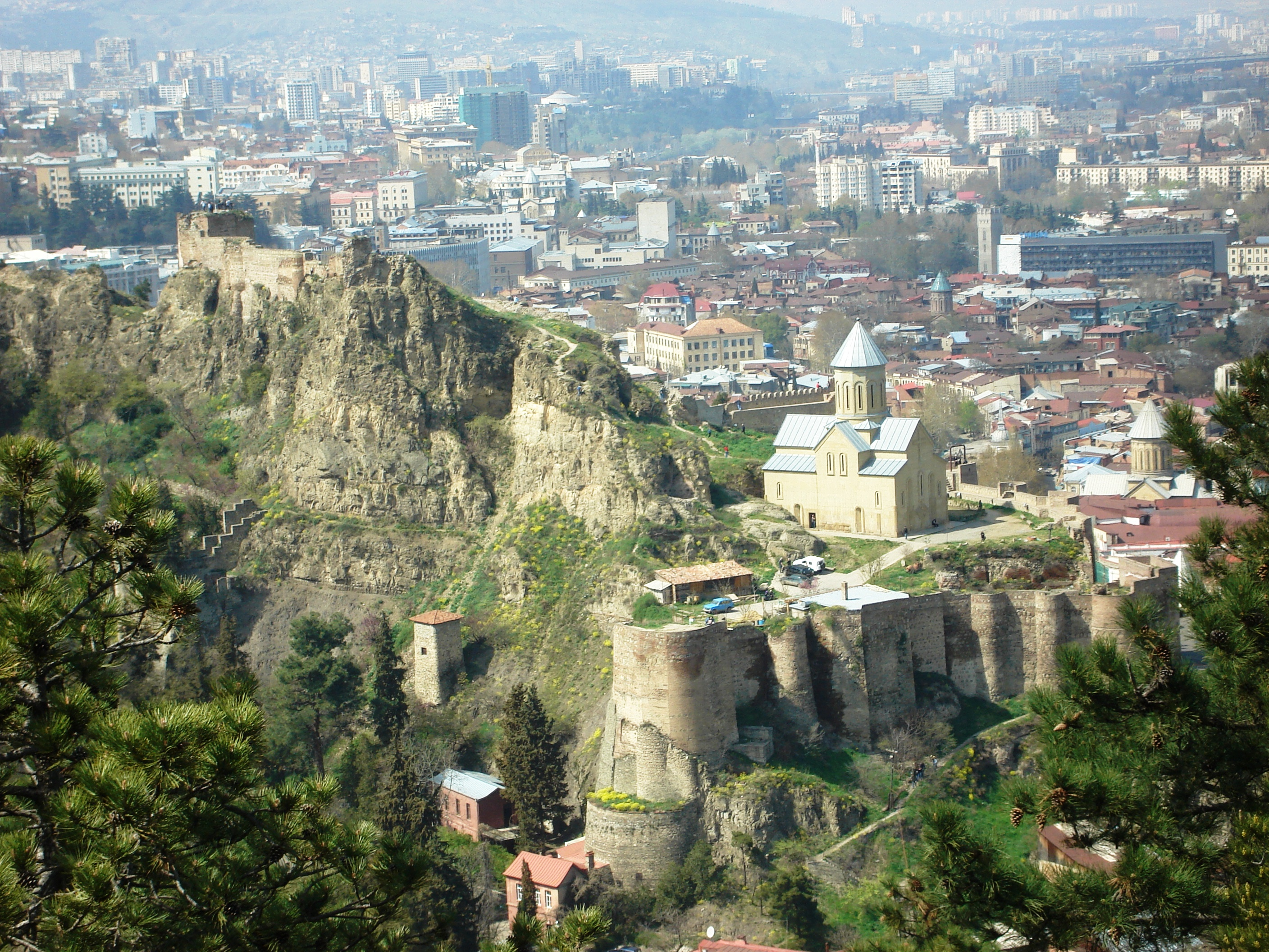 The historic district of Kala in Tbilisi, Georgia: Narikala fortress, and St. Nicholas Church.